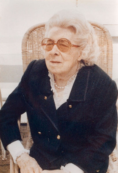 Portrait of writer Suzanne Lilar